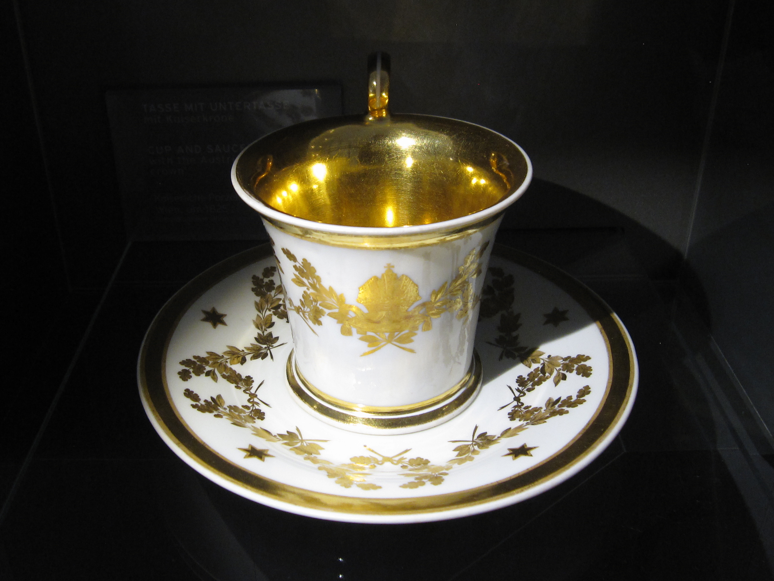 Cup and sauer with the Austrian imperial crown. Imperial Porcelain Manufactory. Vienna, around 1825. Silver Collection Vienna.